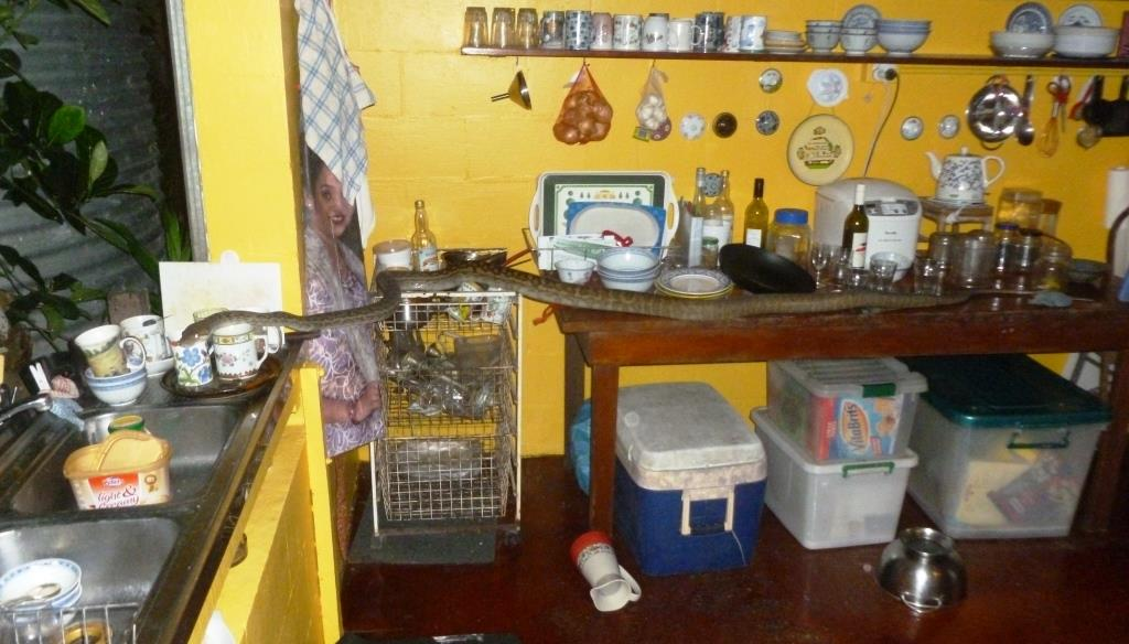 I took this photo in our kitchen at home near Cooktown, Queensland, Australia. 2014